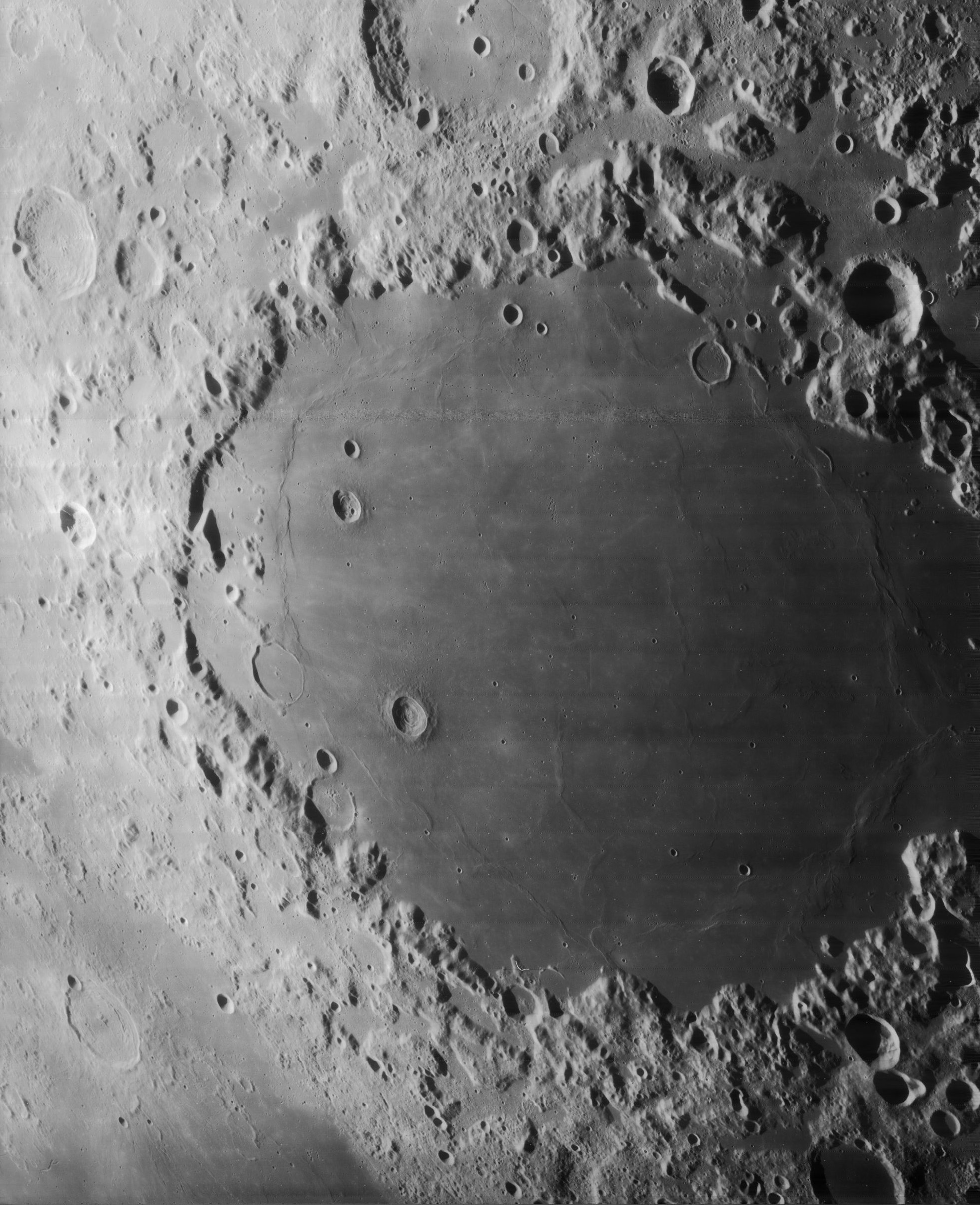 Mare Crisium, on the moon.